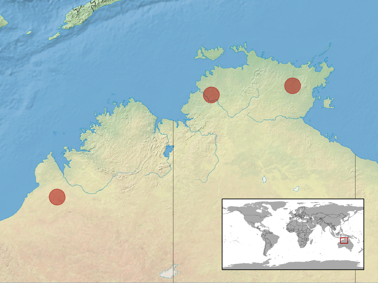 geographic distribution of Diporiphora albilabris (Native: Australia)